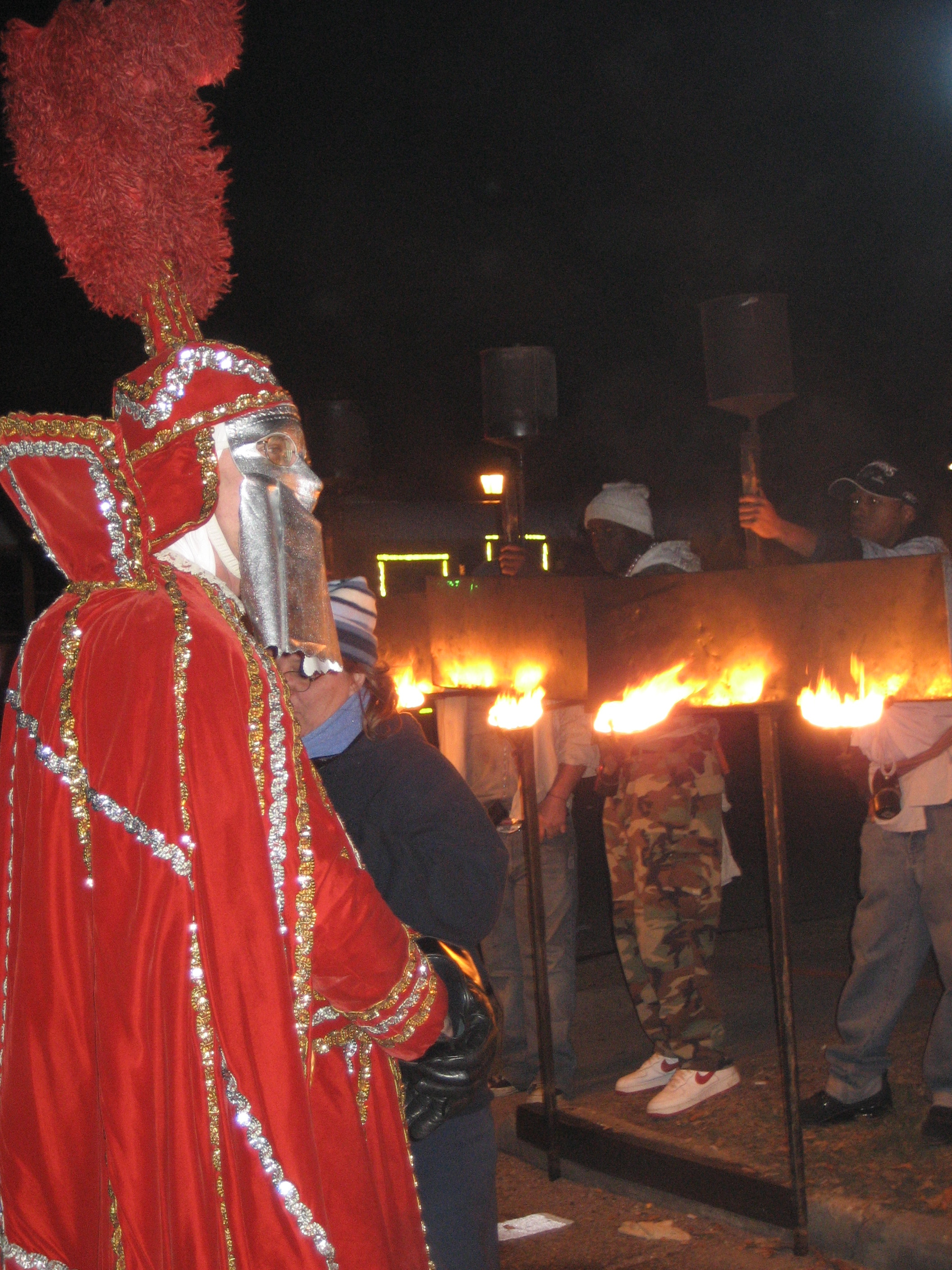 New Orleans Carnival: Lighting the "flambeaux" (torches used to light night parades in the 19th century before electric street lighting, and still maintained by a few Krewes as a tradition). Flambeaux carriers lined up on Napoleon Avenue just before the start of the parade being supervised by a red costumed Krewe official.